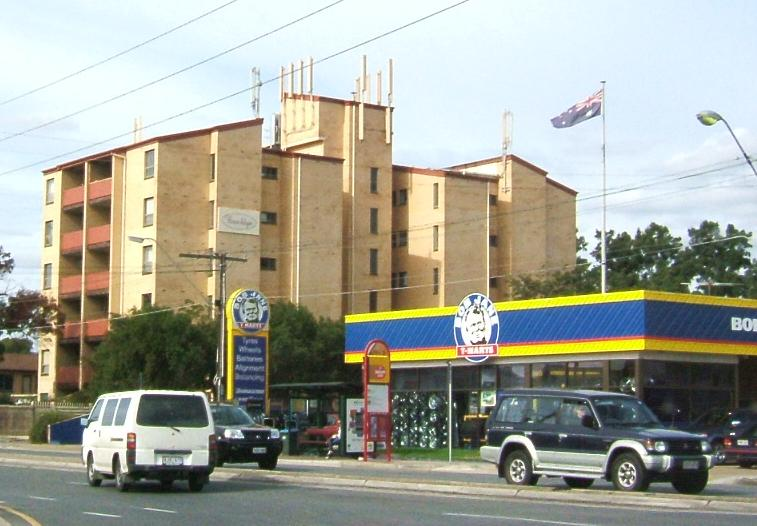 Marion/Henley Beach Rd, Brooklyn Park, South Australia and Torrensville, South Australia